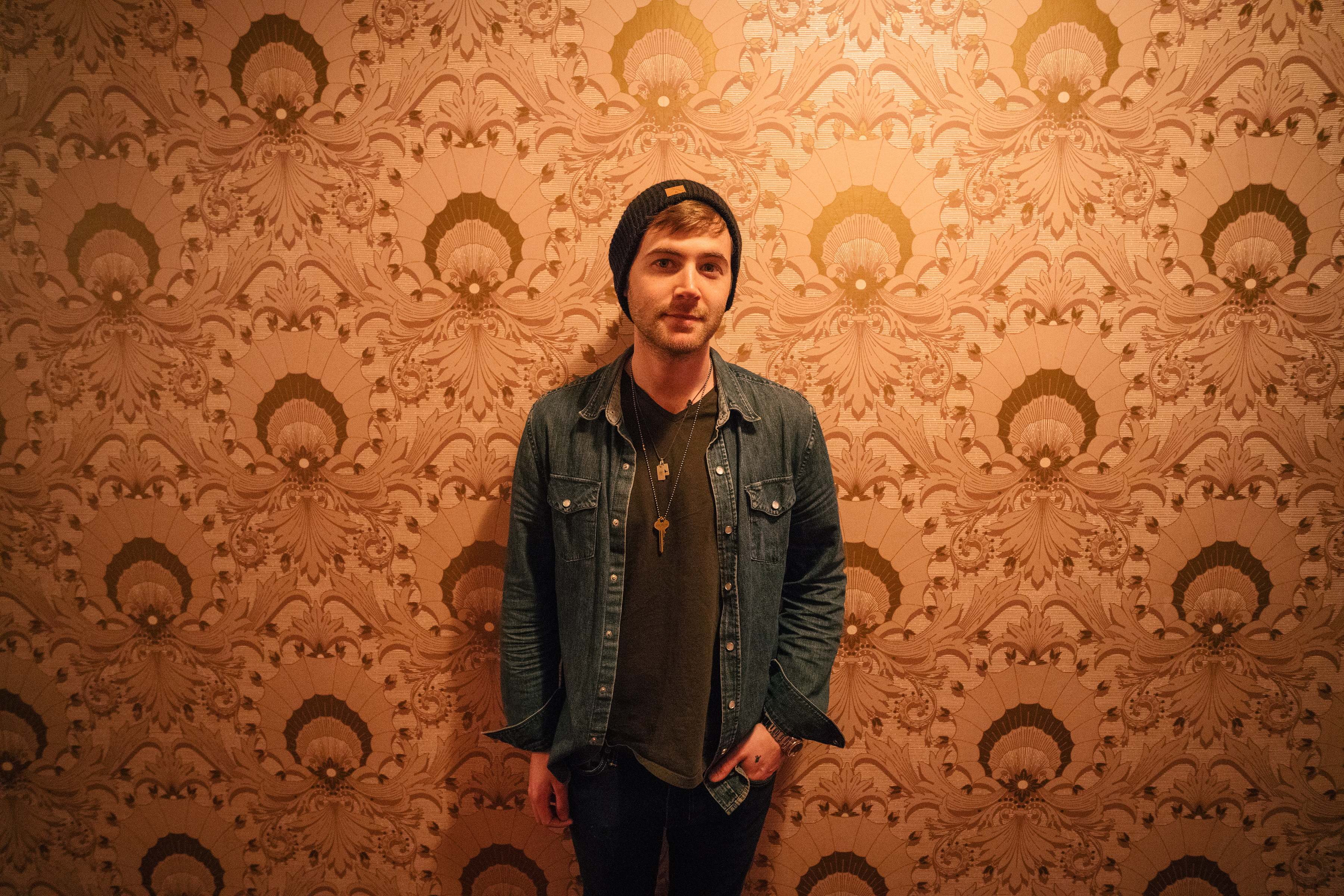 Jimmy Robbins 2018